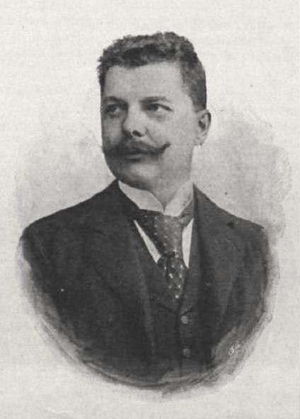 Andor Kozma